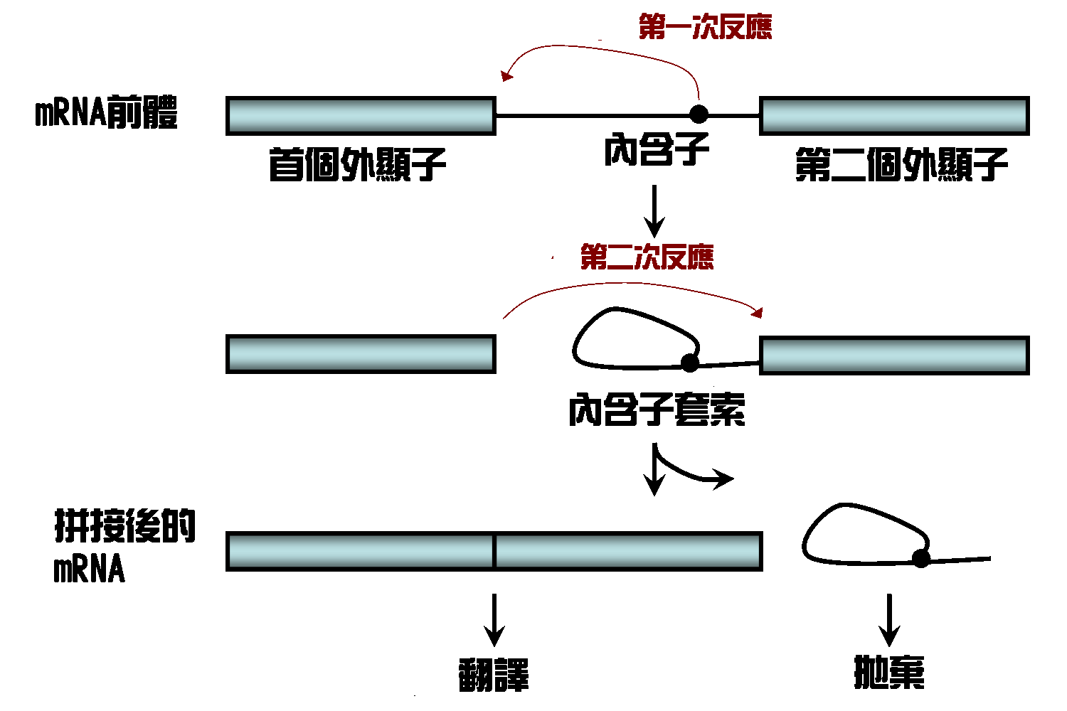 two-step chemistry of mRNA splicing